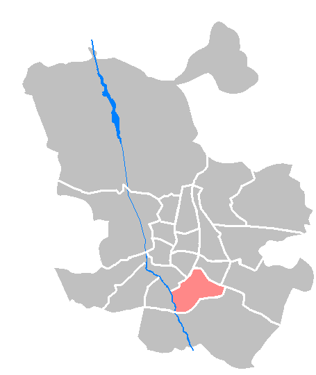 Locator maps of districts in Madrid: Maps - ES - Madrid - Puente de Vallecas.PNG